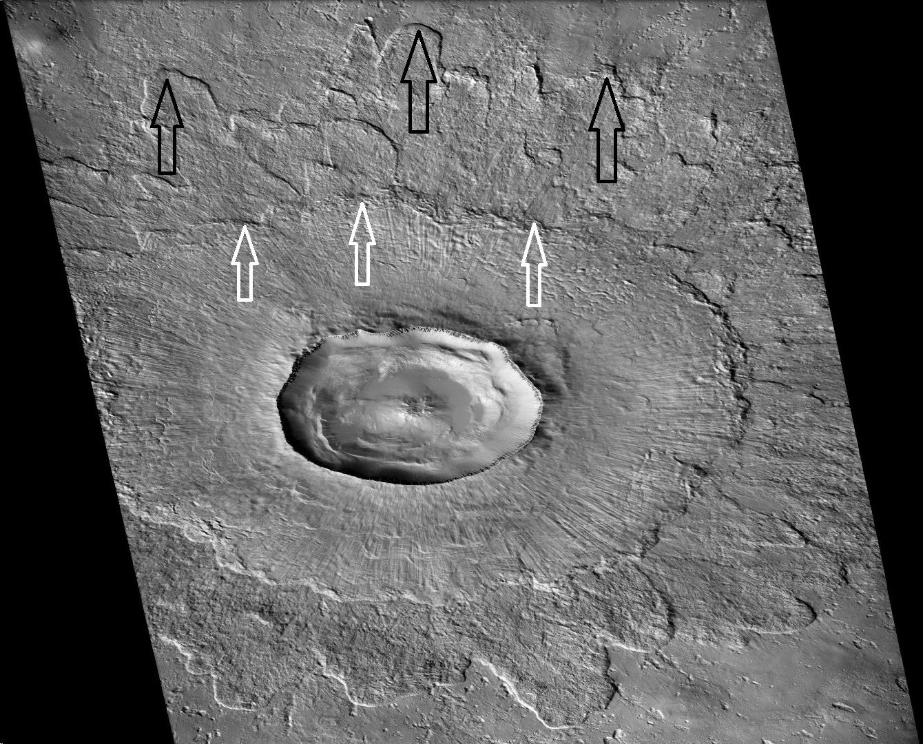 Multiple-layered crater (Steinheim Crater), as seen by CTX arrows show layers.